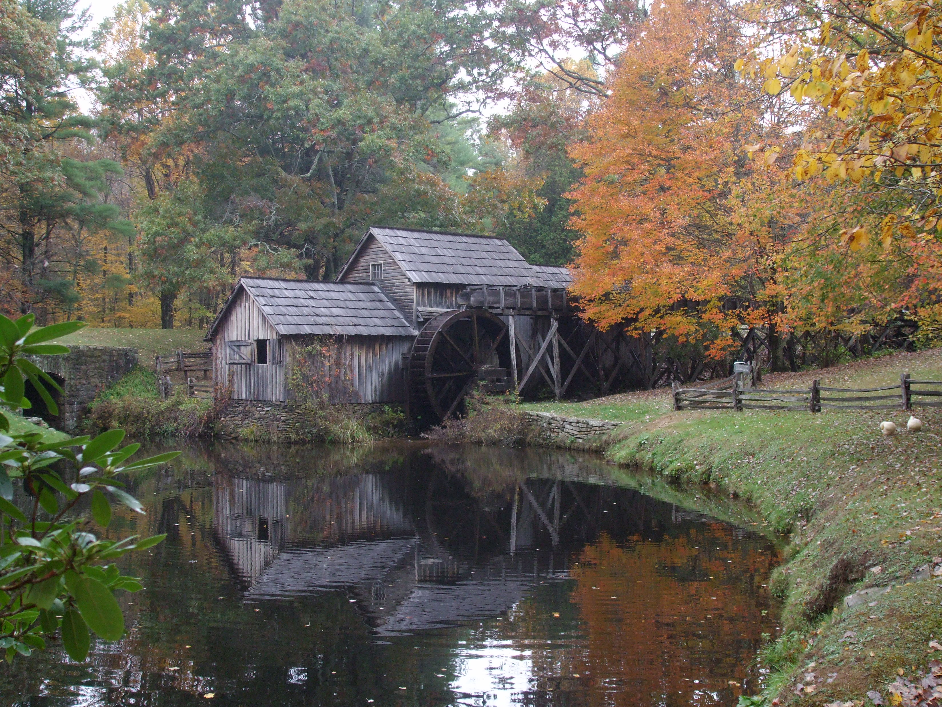 Mabrys Mill, south of Floyd, VA